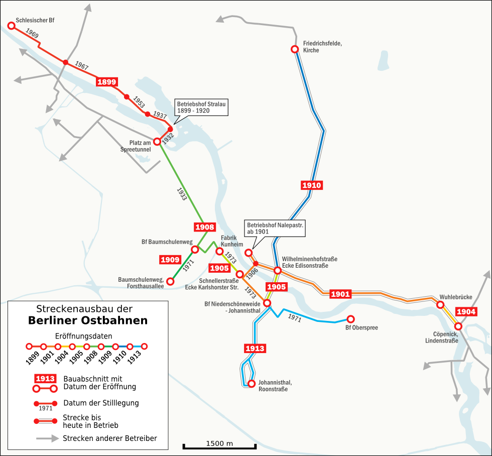 Map of the tram of the Berliner Ostbahnen